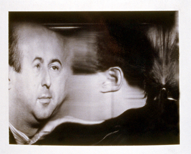 Portrait Sergio Valle Duarte - Brazilian - Peripheral Portrait made with a camera of my own construction. It is a strip camera that records an image while the film moves behind a narrow slit and the subject rotates in front to the camera.